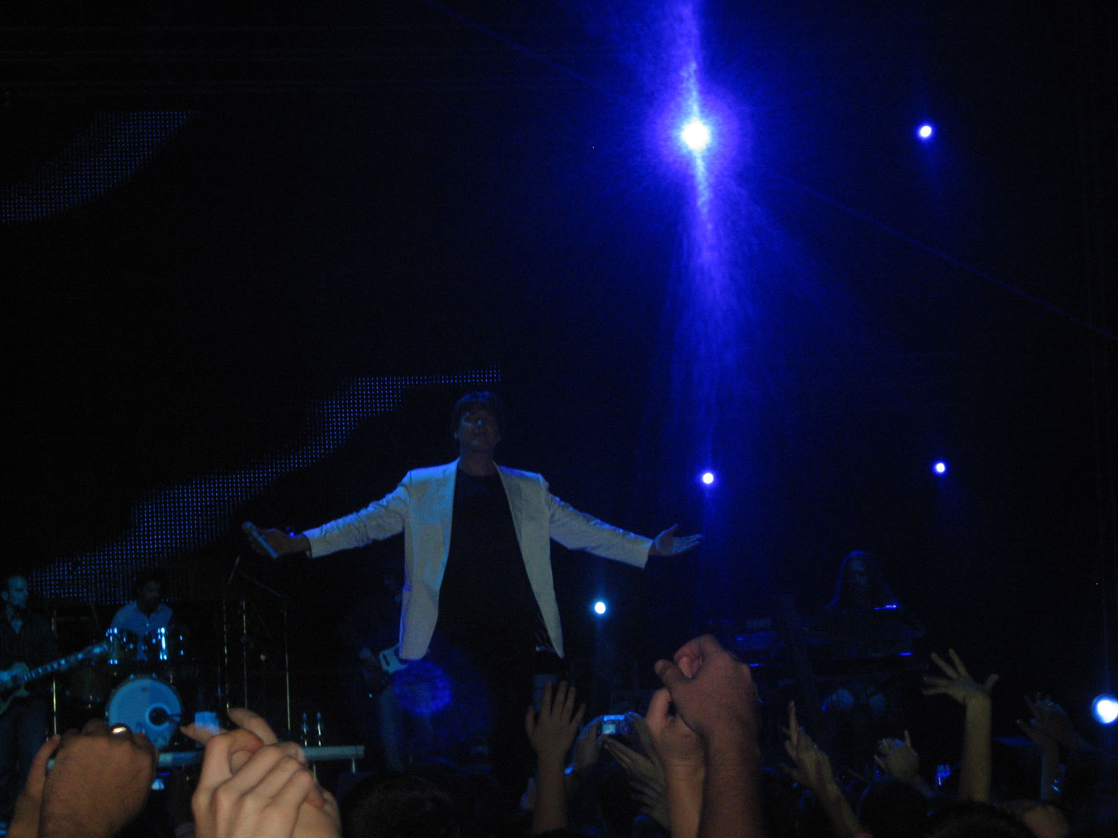 Concert of Zdravko Colic in Pirot, Serbia